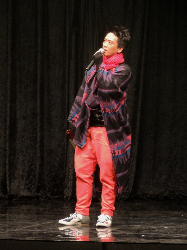 Eric Kwok @ Ultimate Song Chart Awards 2012